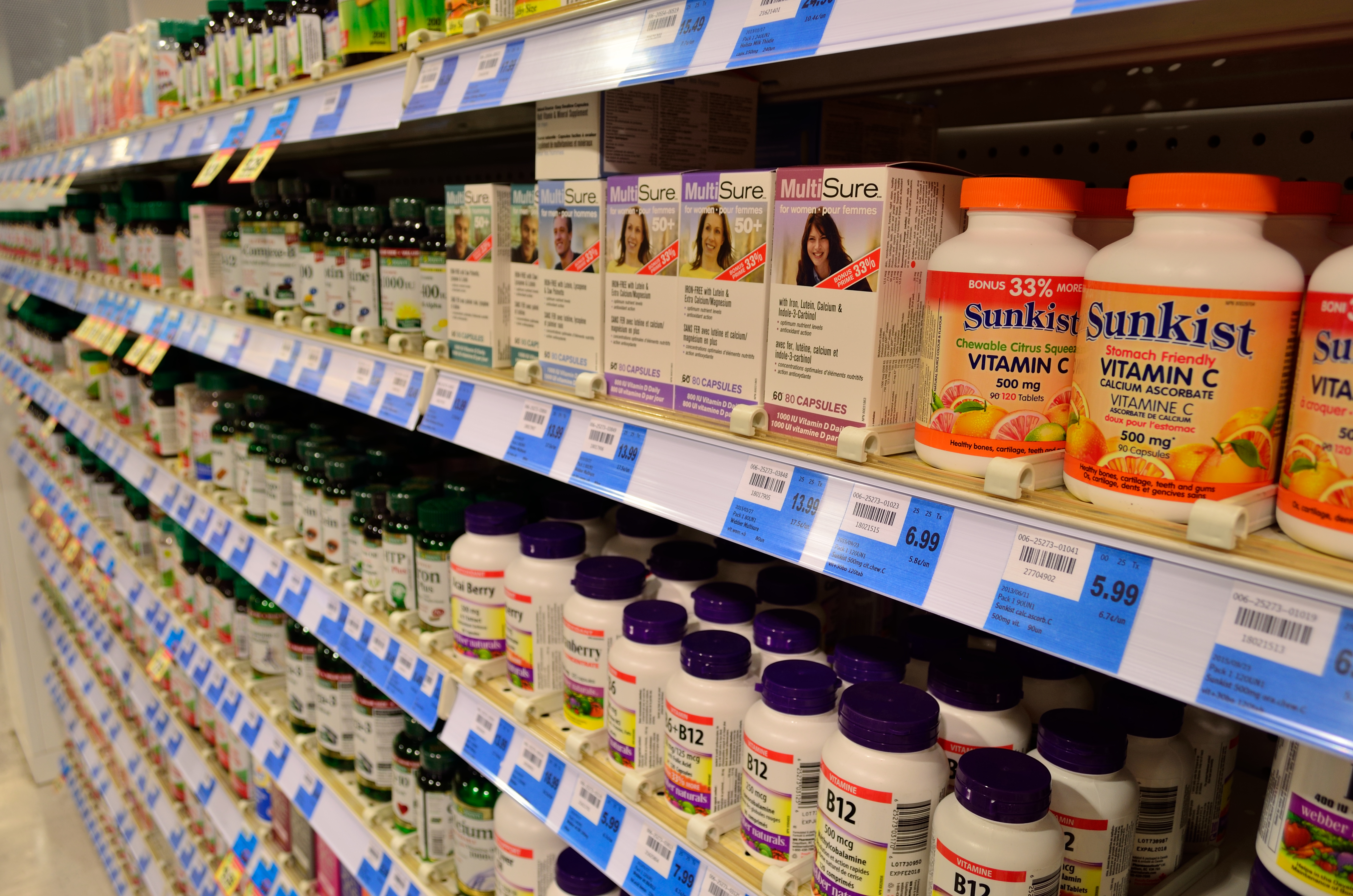 Vitamin supplement pills